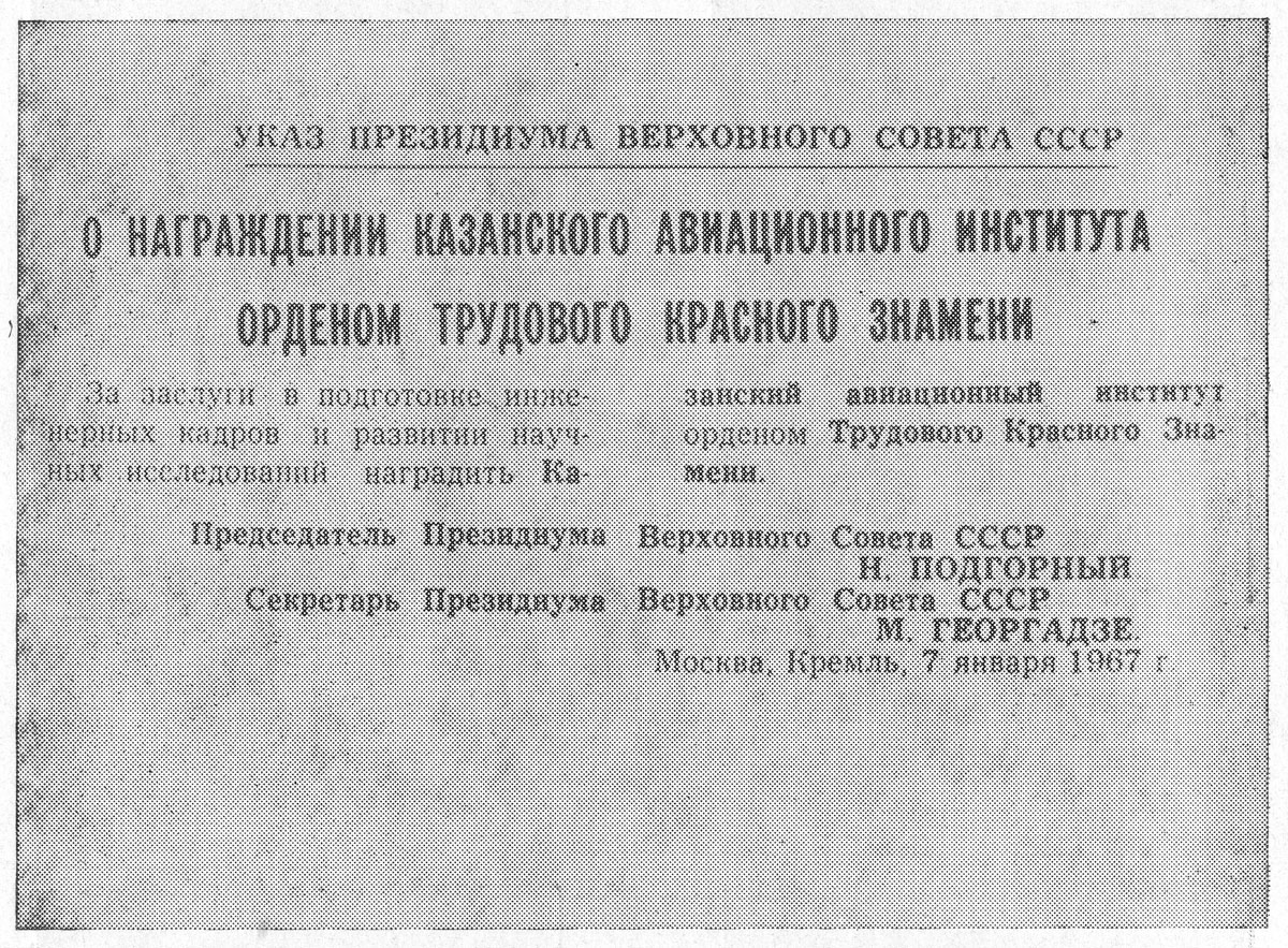 Decree of presidium of the Supreme Soviet of the Soviet Union for awarding Kazan Aviation Institute with Order of the Red Banner of Labour